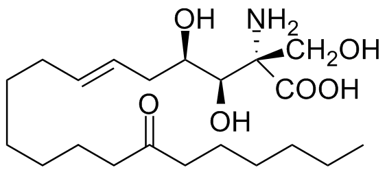 Myriocin chemical structure. self-made in chemdraw.